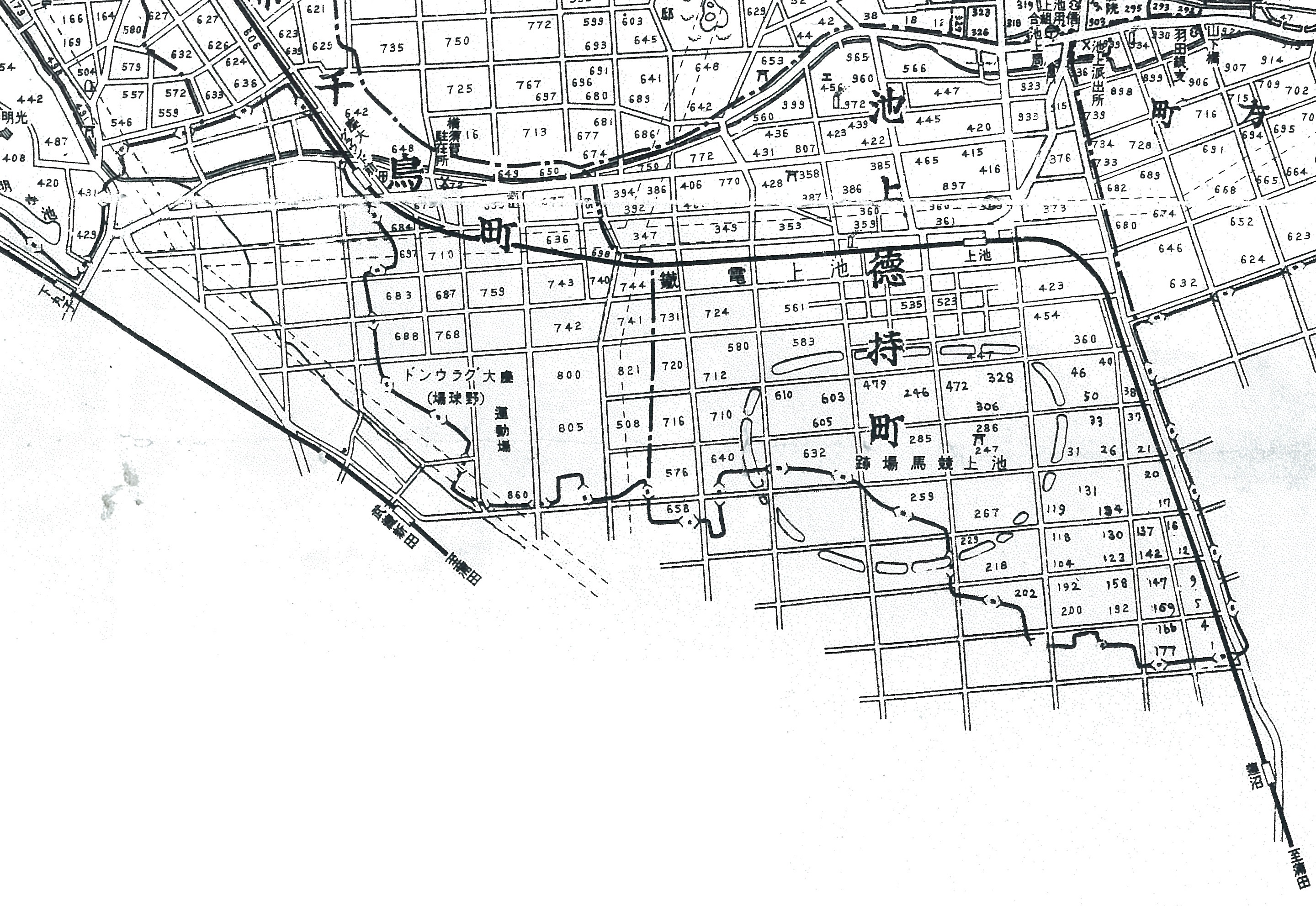 Map of Ikegami tokumochijicho in 1932